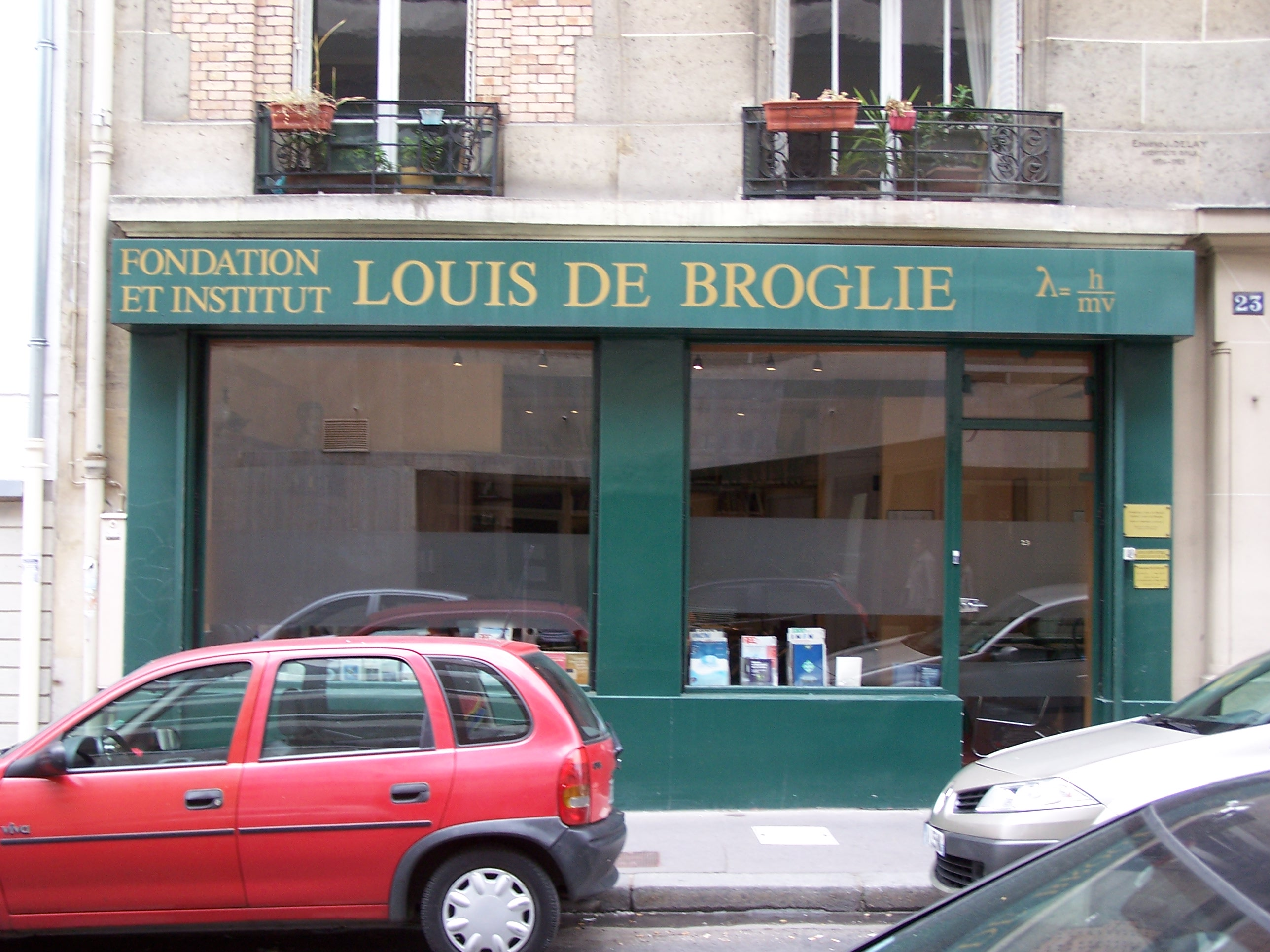 The institut Louis de Broglie at 23, rue Marsoulan in Paris